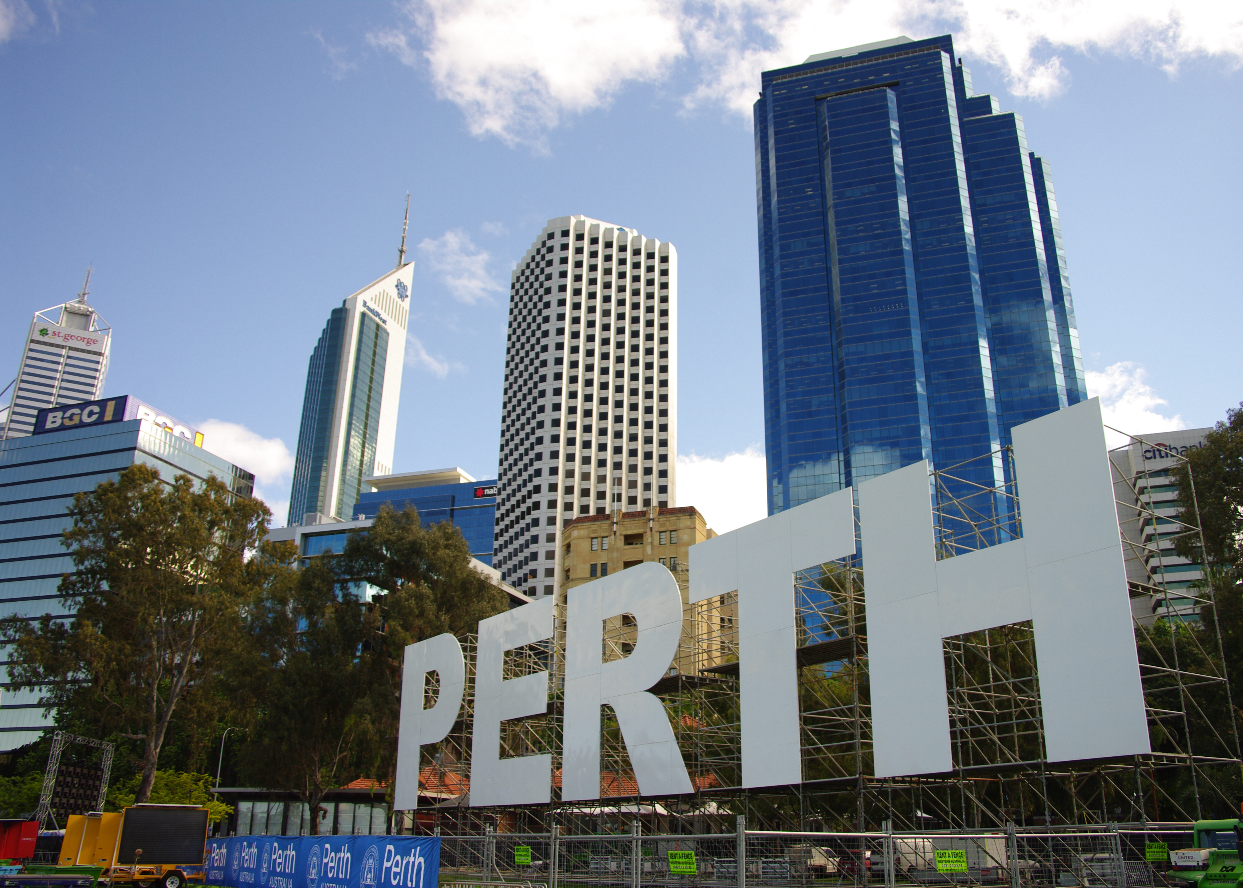 CHOGM 2011, Perth skyline from the esplanade where the Queen will join an estimated 100,000 for a BBQ